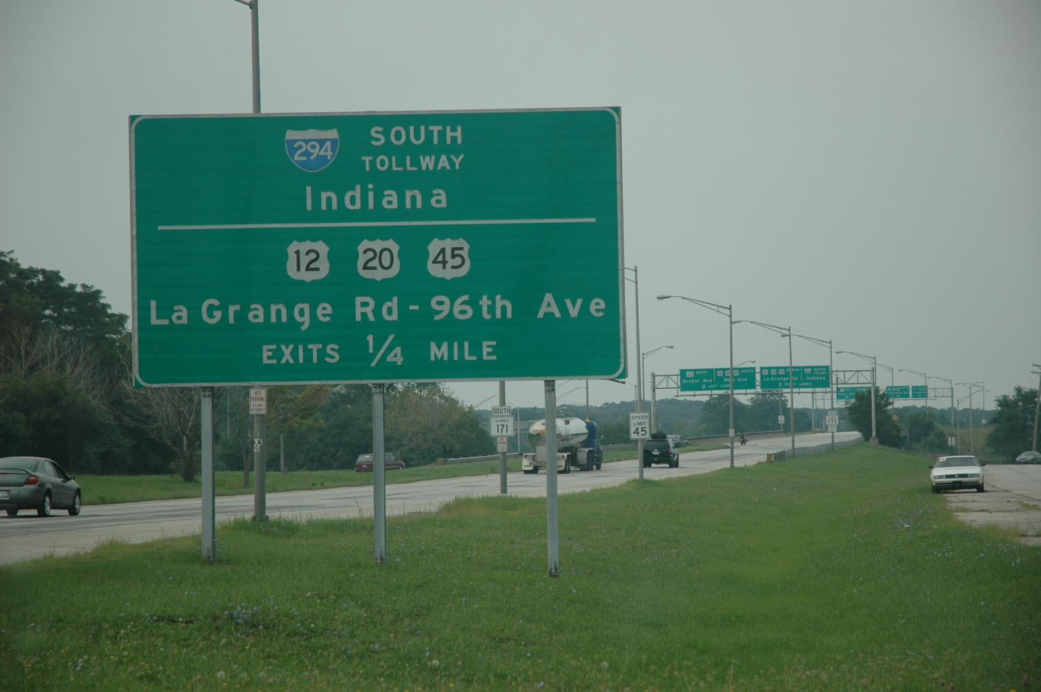 Illinois Route 171 at U.S. Routes 12/20/45, looking southbound just outside of Summit, Illinois.